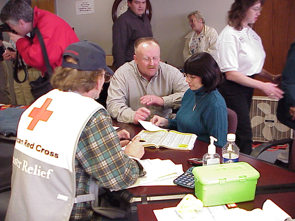 Enid, OK, February 7, 2002 -- FEMA Director Joe M. Allbaugh talks with a disaster victim at the Red Cross Shelter in Enid during a tour of damage areas in Oklahoma. The director announced that individual assistance was available for victims in 45 Oklahoma counties who suffered damage from the recent winter ice storms. Photo by Gene Romano/ FEMA News Photo